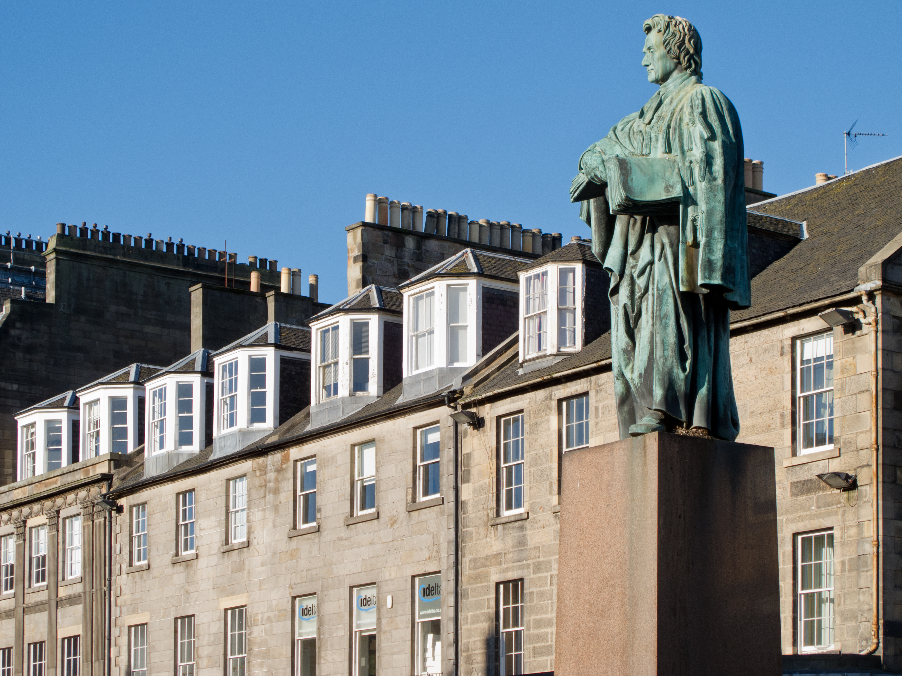 Statue of Thomas Chalmers, George Street, Edinburgh, Scotland, UK. Wikidata has entry Q17570715 with data related to this building.